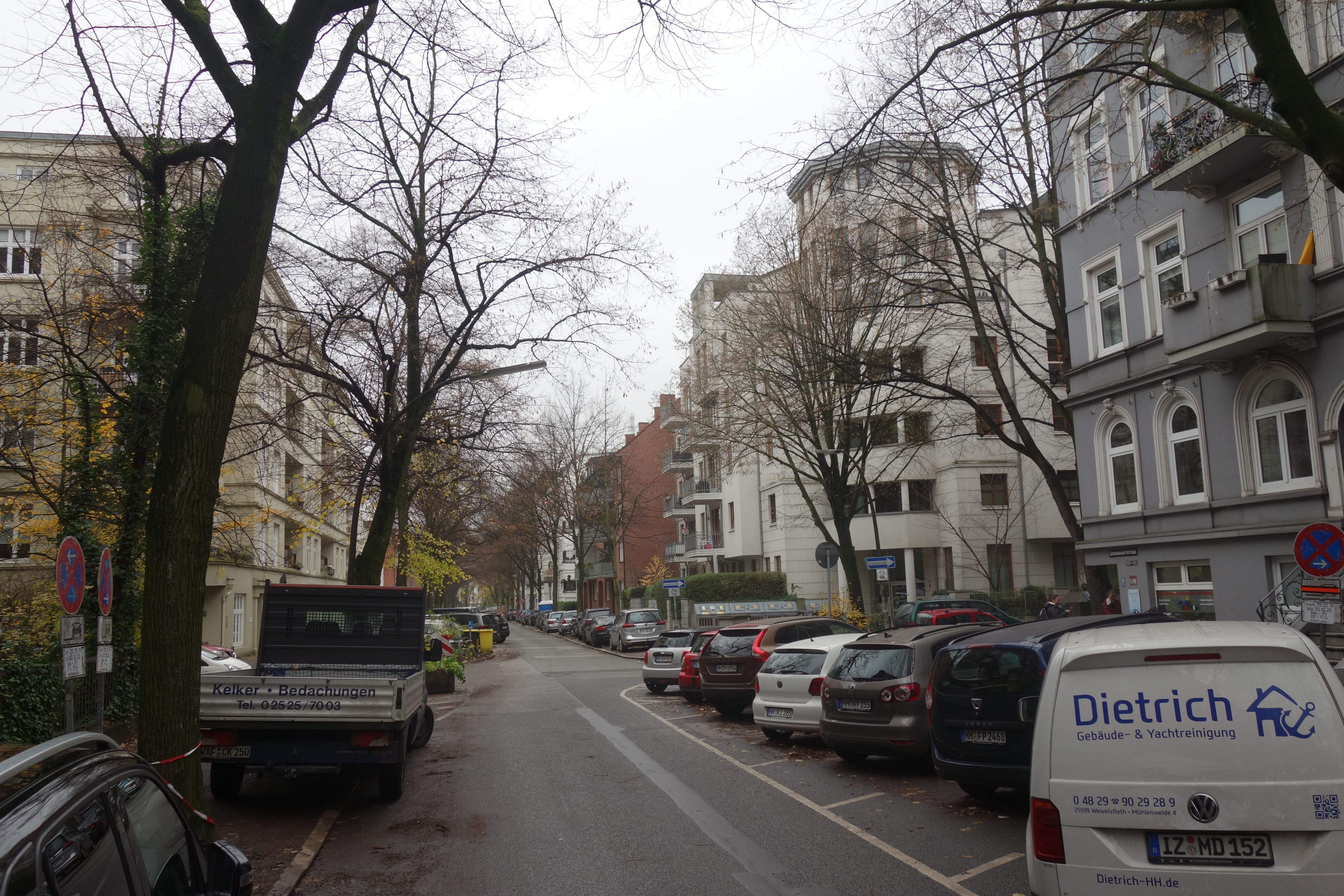 Street in Hamburg